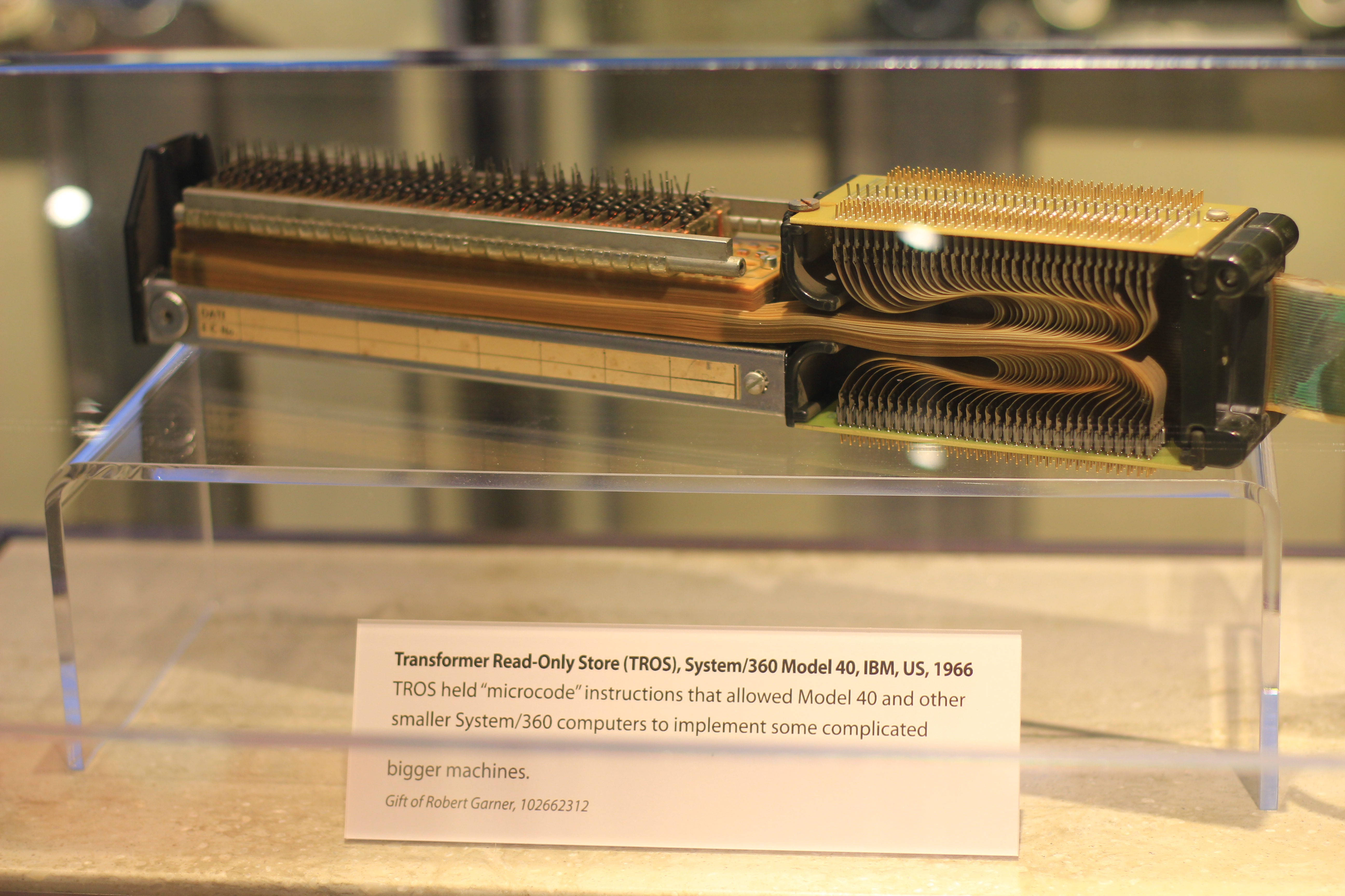 Transformer read-only store (TROS) from an IBM S/360 Model 40. Thin films with a grid of wire traces on them which worked basically like core memory -- holes could be punched through the traces to only allow electricity to flow one direction around each core, thereby representing a 0 or a 1.